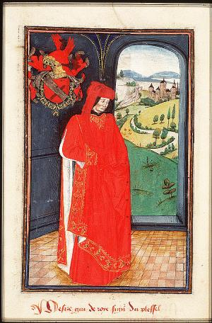 Statuts, Ordonnances et Armorial de l'Ordre de la Toison d'Or (Statutes, Ordonnances and armorial of the Order of the Golden Fleece) Place of origin, date: Southern Netherlands; 1473. Added sections: Southern Netherlands; 1478 or shortly after and 1491 or shortly after Material: Vellum, ff. 86, 249x187 (167x106) mm, 23 lines, littera cursiva (lettre bourguignonne). French. Binding: 18th-century brown leather Decoration: 1 full-page miniature (170x115 mm) with border decoration; 92 miniatures (185/155x120/100 mm); 1 historiated initial (80x90 mm) with border decoration; decorated initials with border decoration (ff., Added section: miniatures ; 4 drawings for miniatures (not finished) Provenance: Presented in 1473 by Gilles Gobet, King of Arms of the Order of the Golden Fleece, to Charles the Bold, Duke of Burgundy and the other Knights during the Chapter of the Order held at Valenciennes; Treasure of the Golden Fleece, Brussls; taken away by the Treasurer C.-F. Humyn (d. 1735) or his daughter C.Ch. de Corte; by legacy to her daughter M.-L. de Corte, wife of Ph.-E. de Poederlé; purchased in 1781 at the Poederlé sale by G.-J- Gérard of Brussels; acquired in 1832 as part of the Gérard collection (no. A 27)